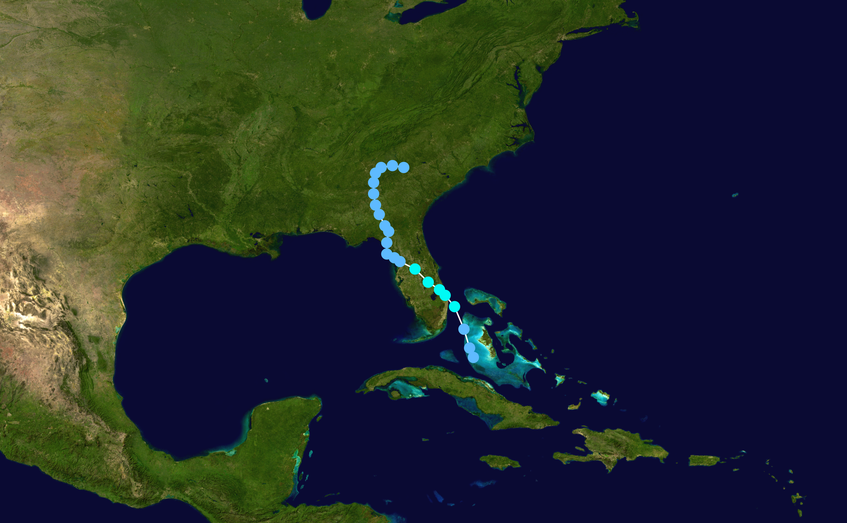 Track map of Tropical Storm Jerry of the 1995 Atlantic hurricane season. The points show the location of the storm at 6-hour intervals. The colour represents the storm's maximum sustained wind speeds as classified in the Saffir–Simpson scale (see below), and the shape of the data points represent the nature of the storm, according to the legend below. Saffir–Simpson scale Tropical depression≤38 mph≤62 km/h Category 3111–129 mph178–208 km/h Tropical storm39–73 mph63–118 km/h Category 4130–156 mph209–251 km/h Category 174–95 mph119–153 km/h Category 5≥157 mph≥252 km/h Category 296–110 mph154–177 km/h Unknown Storm type Tropical cyclone Subtropical cyclone Extratropical cyclone / Remnant low / Tropical disturbance / Monsoon depression